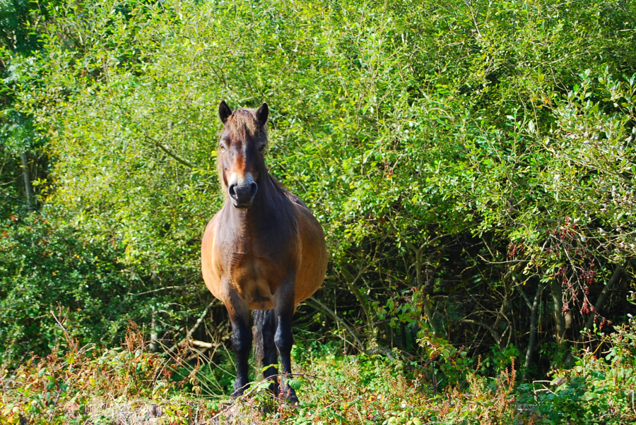 One of the wild Exmoor ponies on North Hill near Minehead.